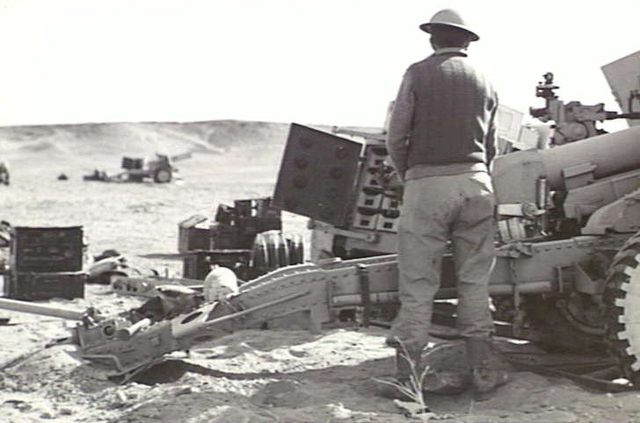 A 25-pounder gun from the 2/7th Field Regiment, Royal Australian Artillery, firing around Cairo, January 1942